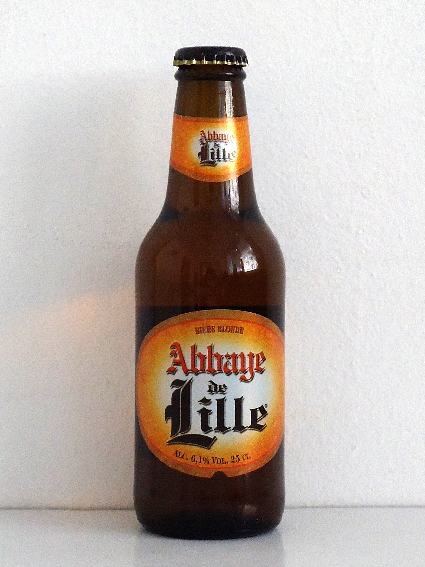 Abbaye de lille (beer)